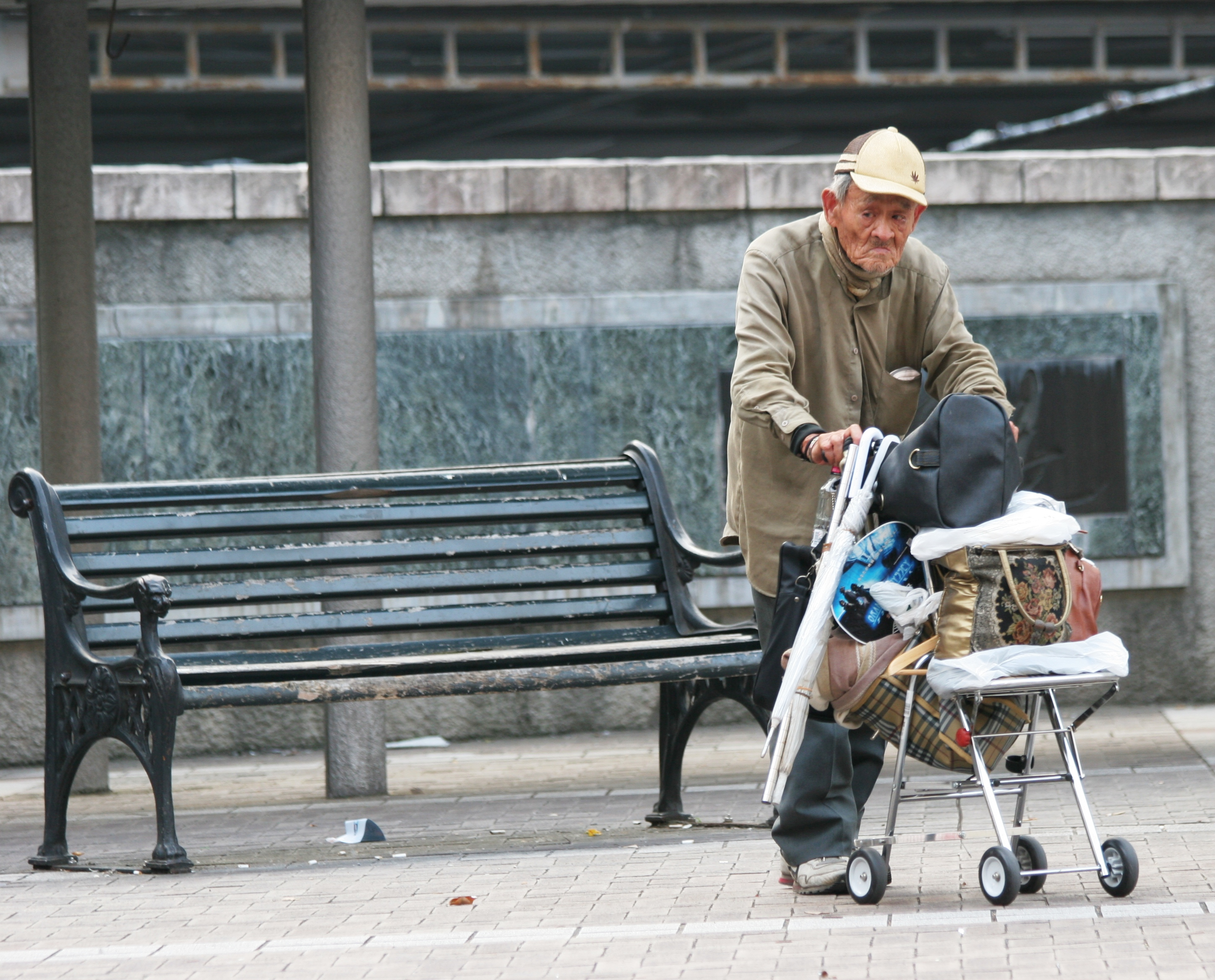 Elderly man at Shimonose Park Sasebo Japan